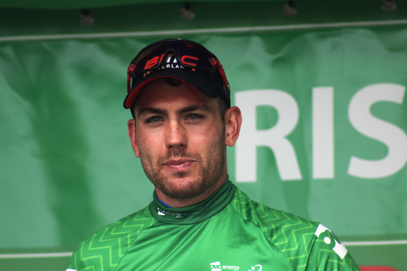 Paddy Bevin was leading the 2018 Tour of Britain at the end of stage 3 in Bristol.